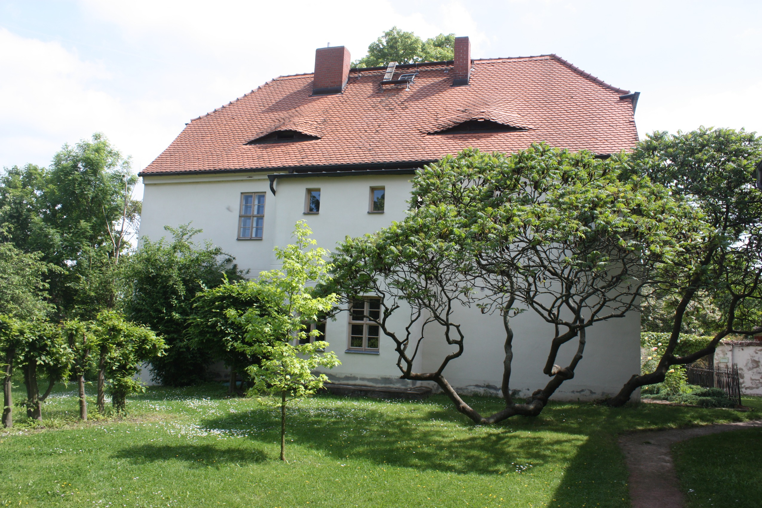 Röcken (Lützen), the birthplace of Friedrich Nietzsche